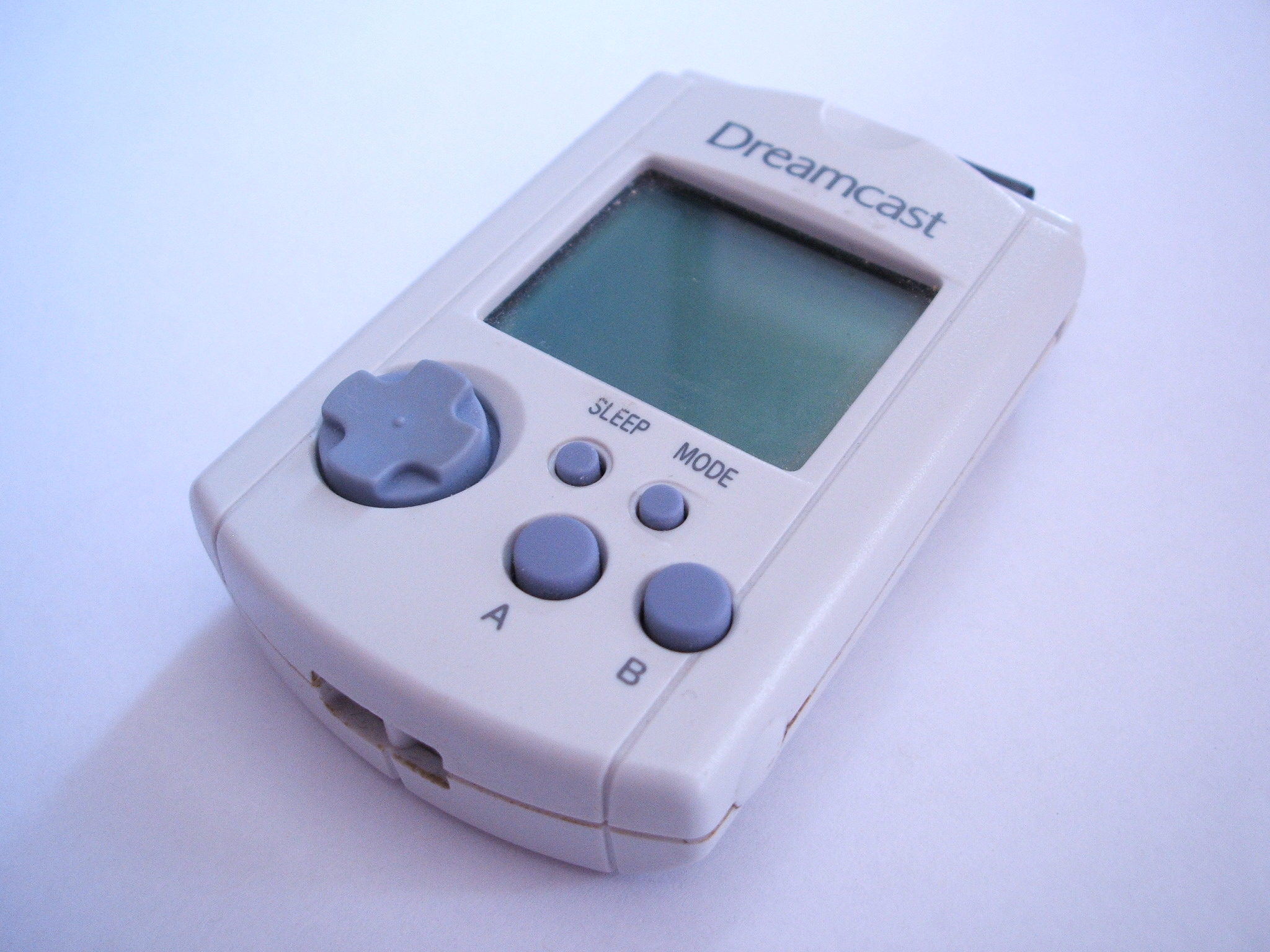 A Sega Dreamcast Visual Memory Unit